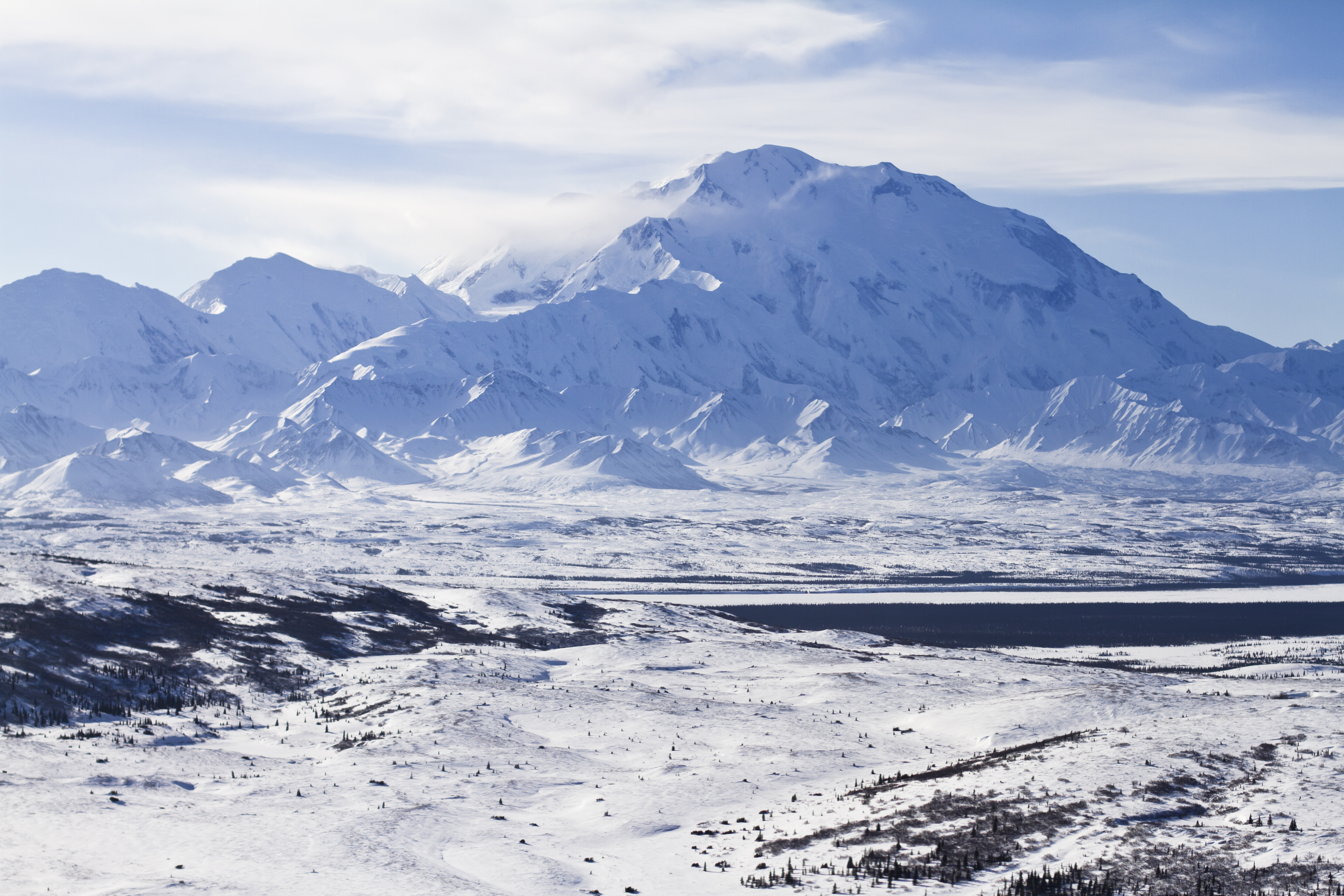 (Nps photo / Jacob w. Frank)